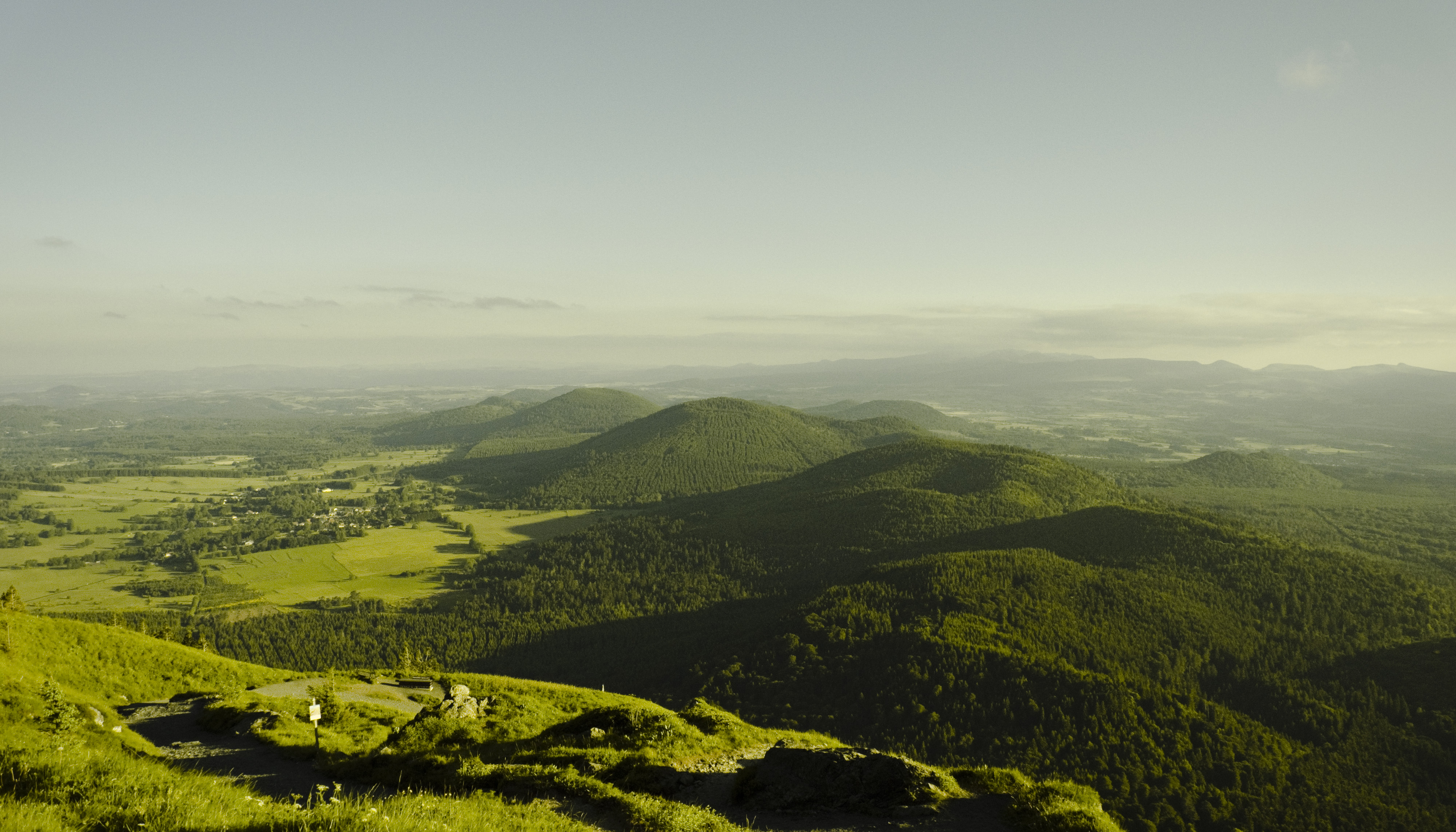 Volcanoes of Chaine des Puys in Auvergne, France.